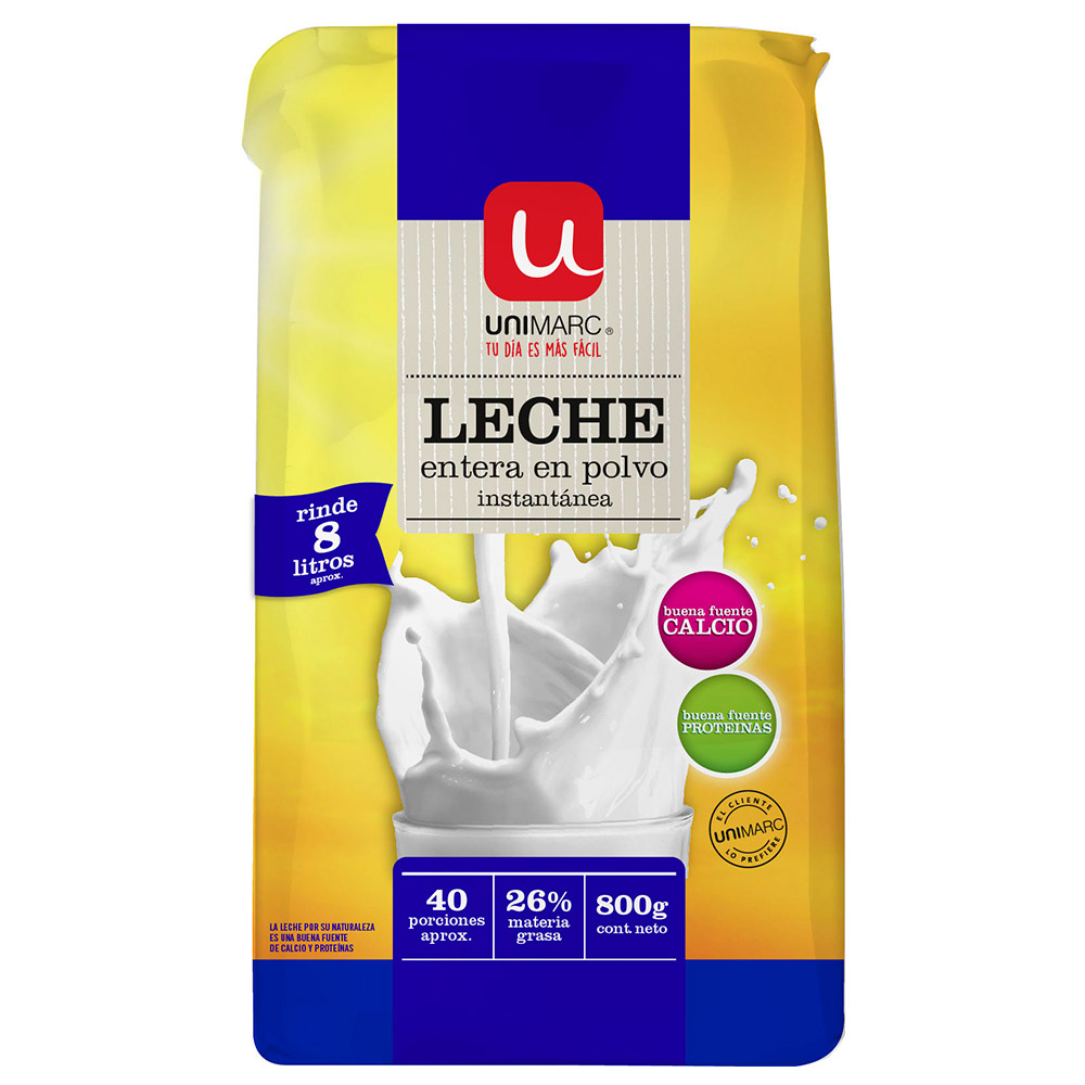 Leche en polvo Unimarc